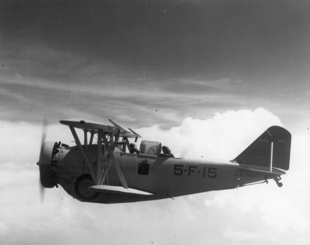 PictionID:43637243 - Title:Grumman FF-1 9365 VF-5B 5-F-15 Aug36 80-G-466495 - Catalog:17_000326 - Filename:17_000326.tif - ---------Image from the René Francillon Photo Archive. Having had his interest in aviation sparked by being at the receiving end of B-24s bombing occupied France when he was 7-yr old, René Francillon turned aviation into both his vocation and avocation. Most of his professional career was in the United States, working for major aircraft manufacturers and airport planning/design companies. All along, he kept developing a second career as an aviation historian, an activity that led him to author more than 50 books and 400 articles published in the United States, the United Kingdom, France, and elsewhere. Far from “hanging on his spurs,” he plans to remain active as an author well into his eighties.-------PLEASE TAG this image with any information you know about it, so that we can permanently store this data with the original image file in our Digital Asset Management System.--------------SOURCE INSTITUTION: San Diego Air and Space Museum